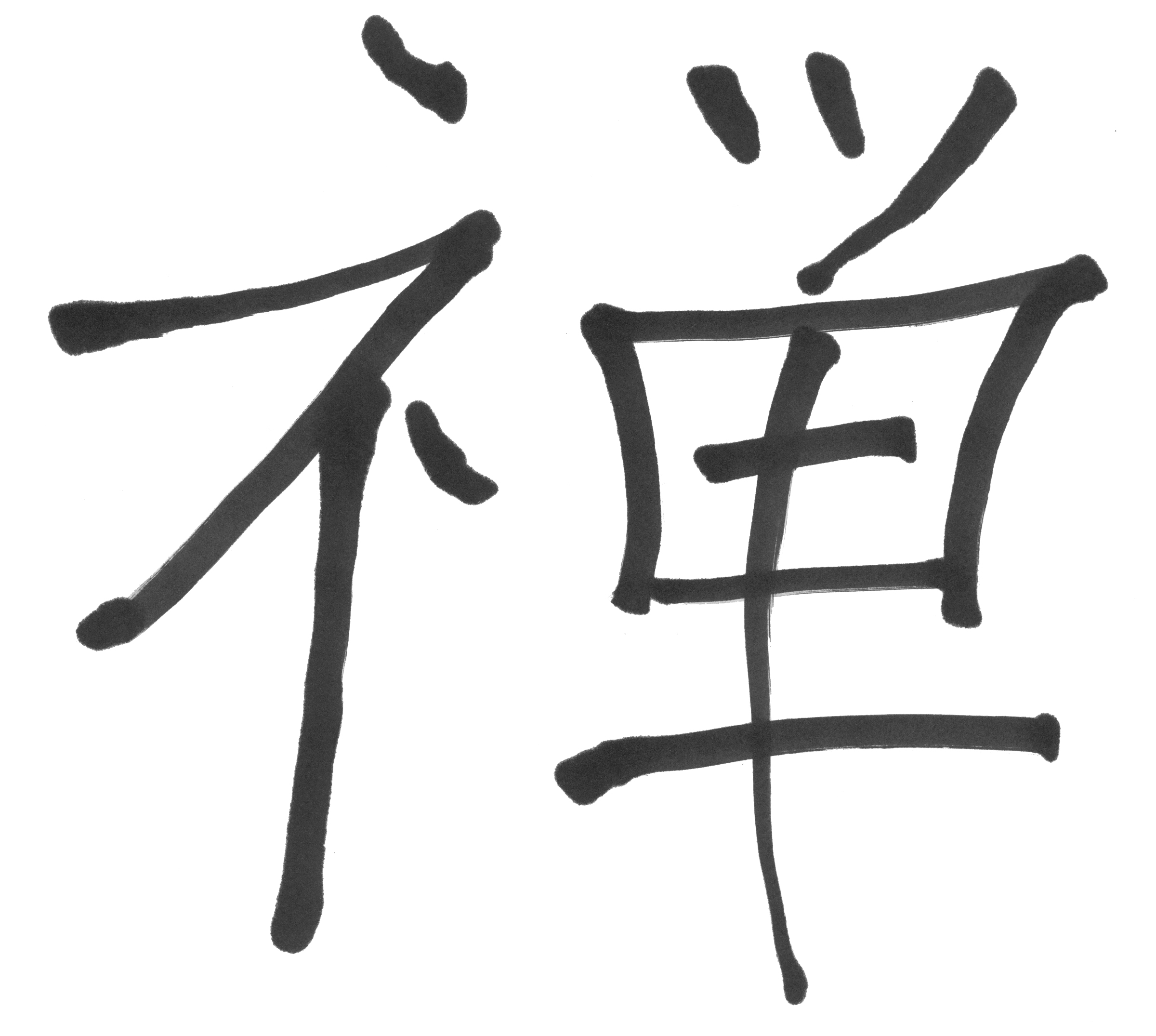 author:galagorn Galagorn contribute on